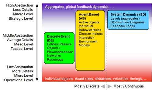 This picture shows how simulation modeling approaches correspond to the abstraction levels. System dynamics, Discrete Event and Agent Based modeling are placed depending on the abstraction level where they are usually applicable.